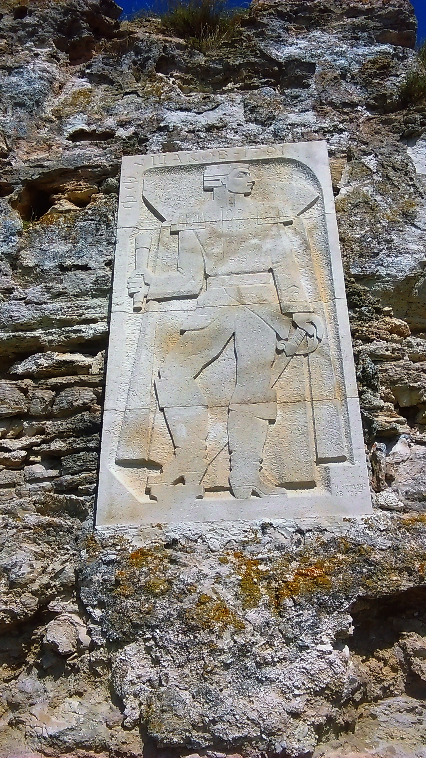 The memorial of the Russian admiral Ushakov at cape Kaliakra, Bulgaria